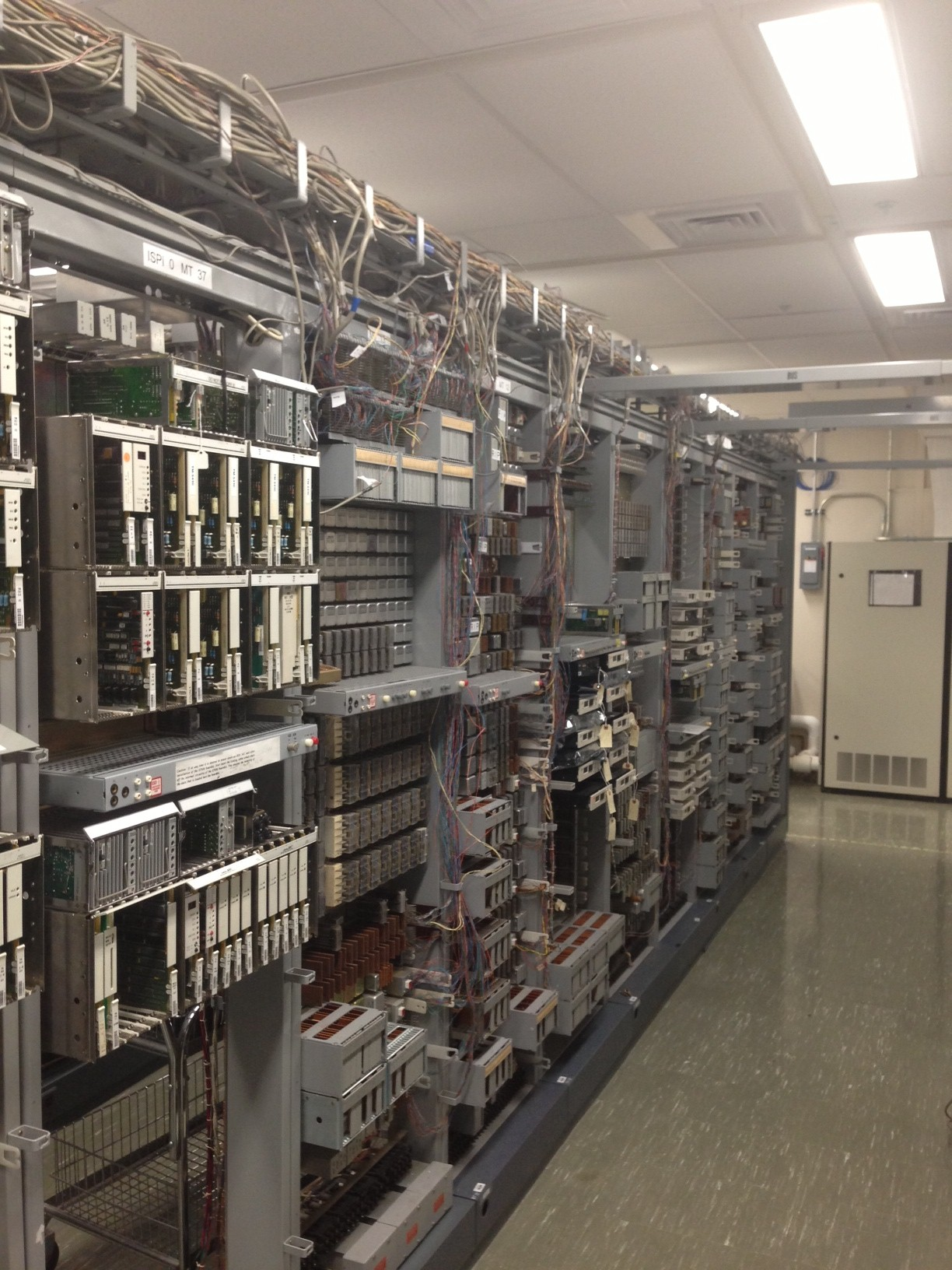 View of a 1AESS Frames Lineup.